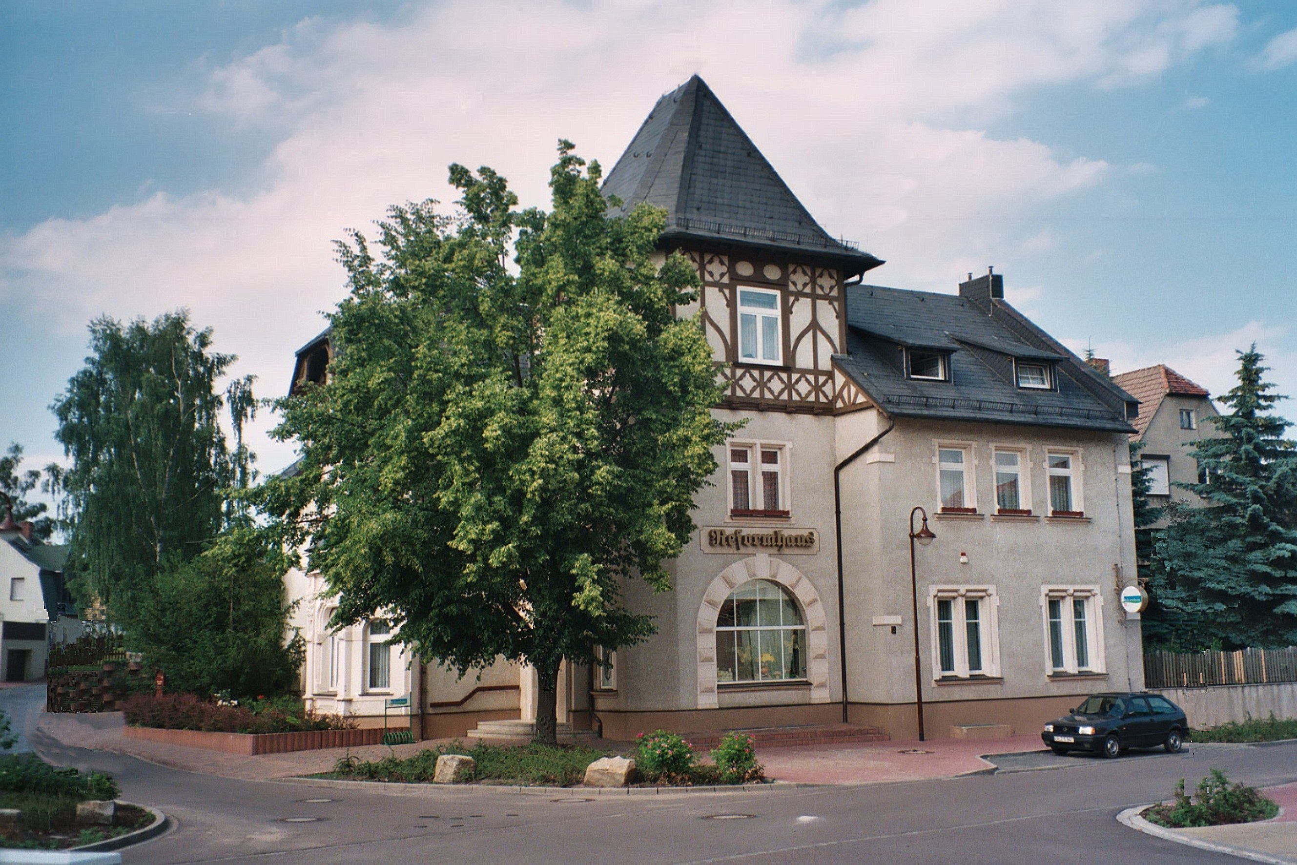 Villa in art nouveau